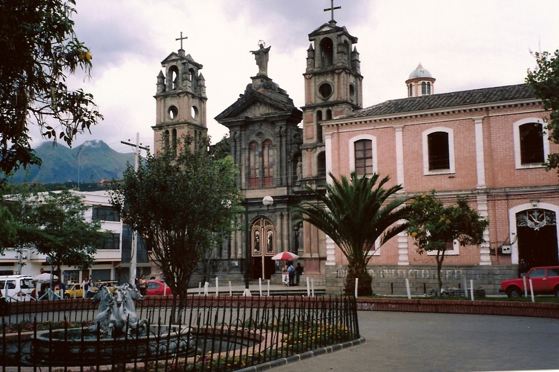 Plaza in Otavalo. Plaza in Otavalo, Otavalo.